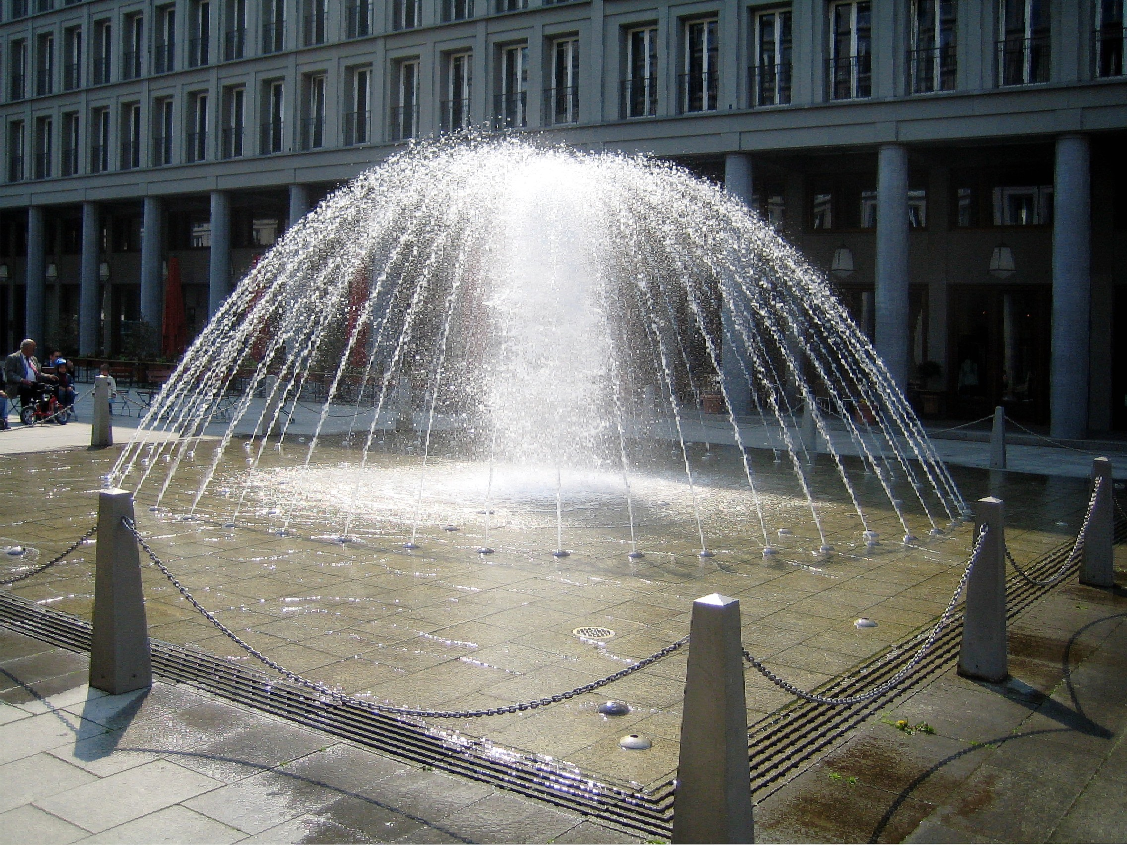 Fountain at Walter-Benjamin-Platz in Berlin-Charlottenburg.